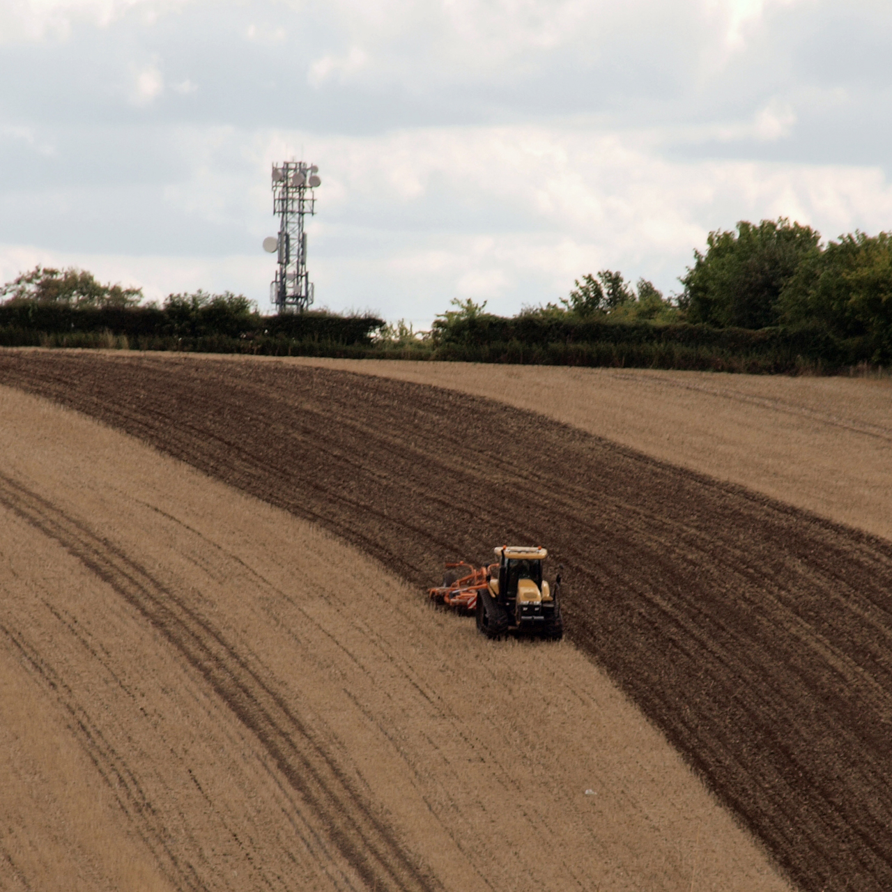 Cultivating (or harrowing) on Beacon Hill, near Barton-upon-Humber, North Lincolnshire, Great Britain.